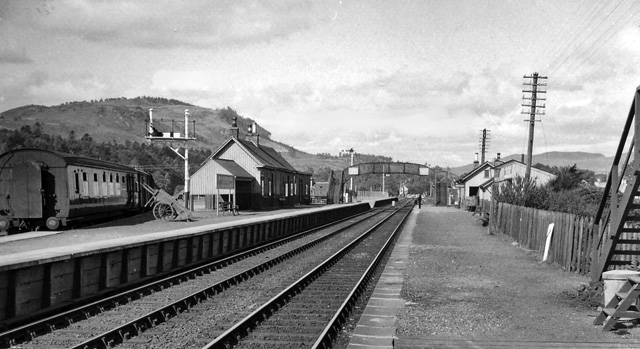 Ballinluig Station. View NW towards Blair Athol, Aviemore and Inverness, on Main Line Perth - Inverness; junction for Aberfeldy, whence the branch curves to left and is here occupied by the branch train.Aberfeldy branch closed 3/5/65, but Main Line still very much alive today.